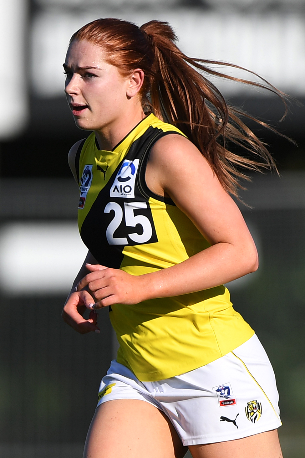 Grace Egan of Richmond during the 2019 VFLW Round 6 match between NT Thunder and Richmond at TIO Stadium on 15 June 2019 in Darwin, Australia.